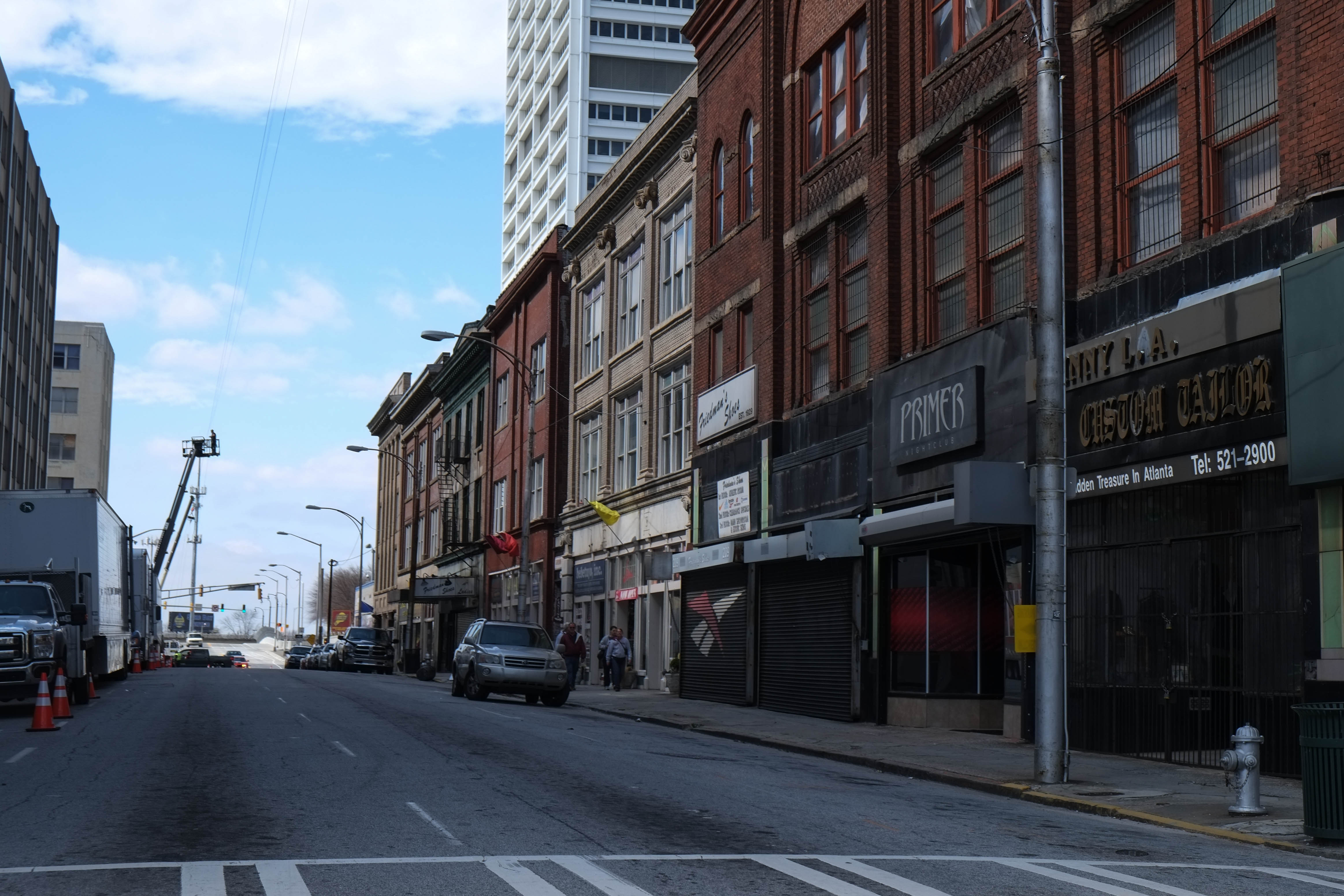 Hotel Row, South Downtown, Atlanta